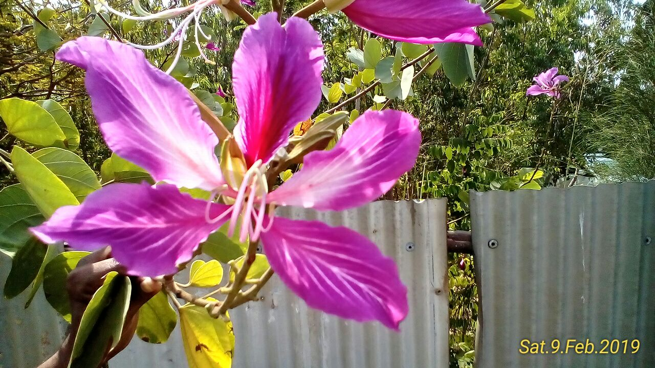 Phanera Purpurea Flower found at Pillayarkuppam , Puducherry